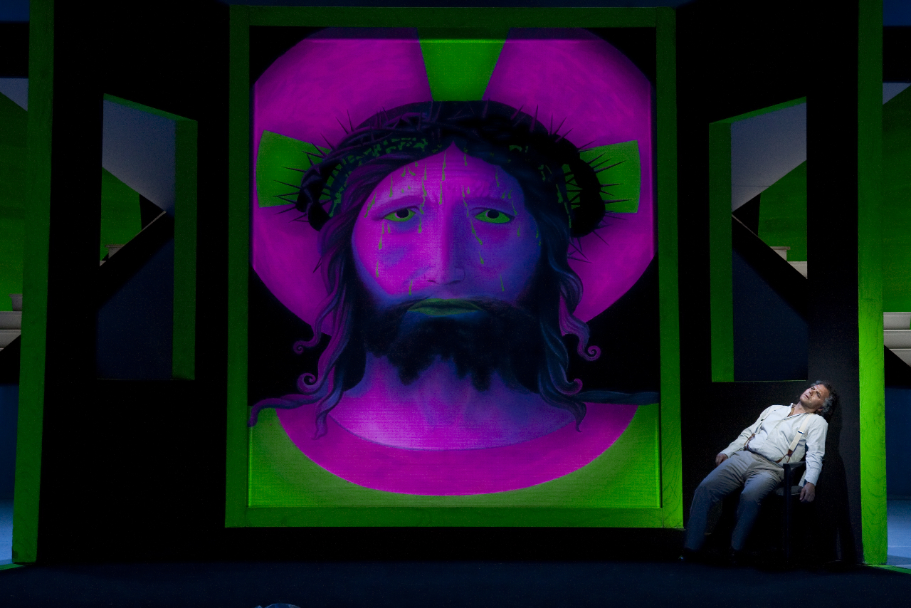 Production of Palestrina at Hamburgische Staatsoper 2011, stage photo of Act III: Roberto Saccà as Palestrina (right of stage), picture of weeping Jesus (Set design: Stefan Hageneier)